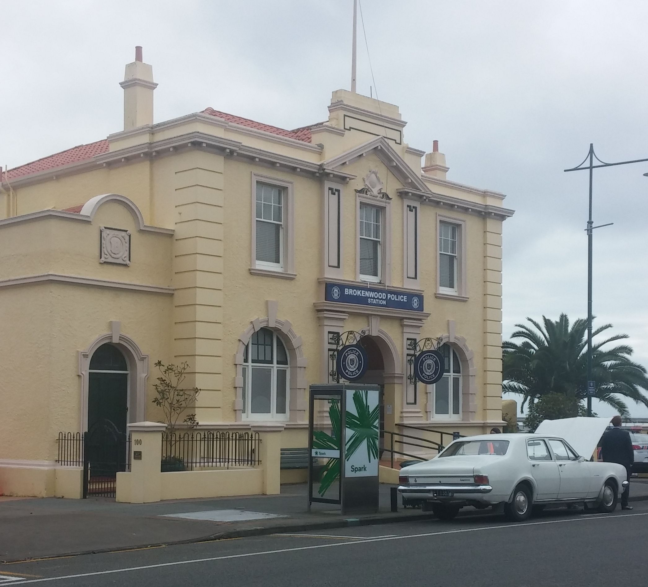 Filming of series 2, episode 2, of the New Zealand television program "Brokenwood". At Helensville, Auckland.